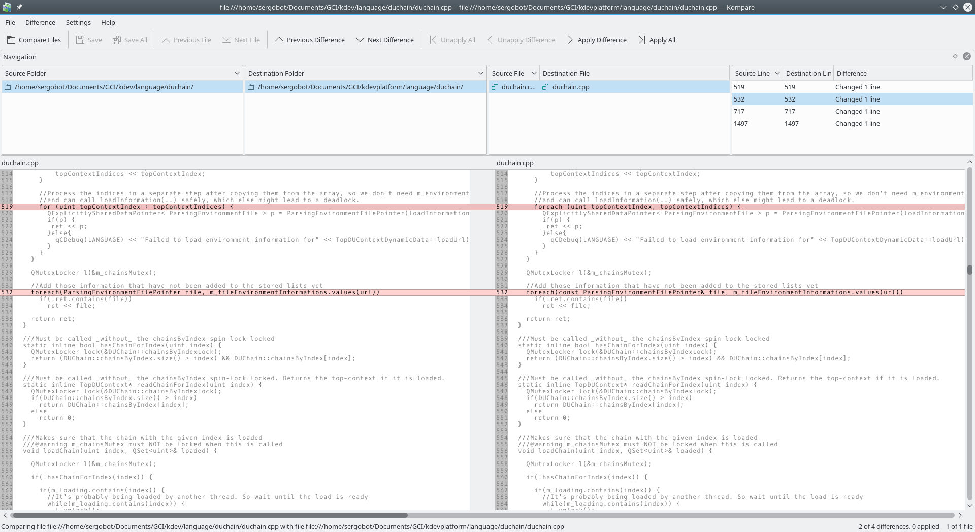 Screenshot of the KDE application Kompare This image meets the KDE Documentation Screenshots Requirements. Content: appears to be an extract of a diff of versions 4260549 and 5488096 of the Wikipedia article The Hitchhiker's Guide to the Galaxy: [1], which was during that time licensed under the GFDL.